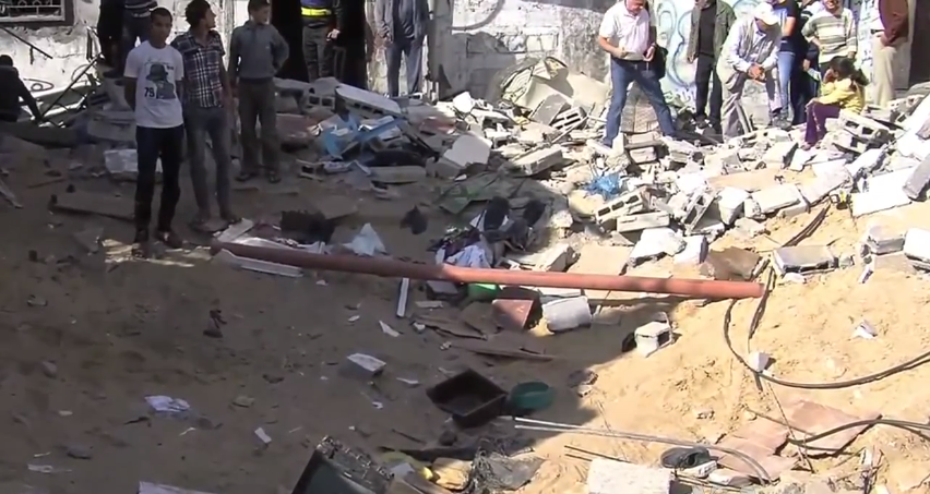 A shell hit the home of a family living in Gaza City destroying not only the house but the family as well during Operation Pillar of Defense.